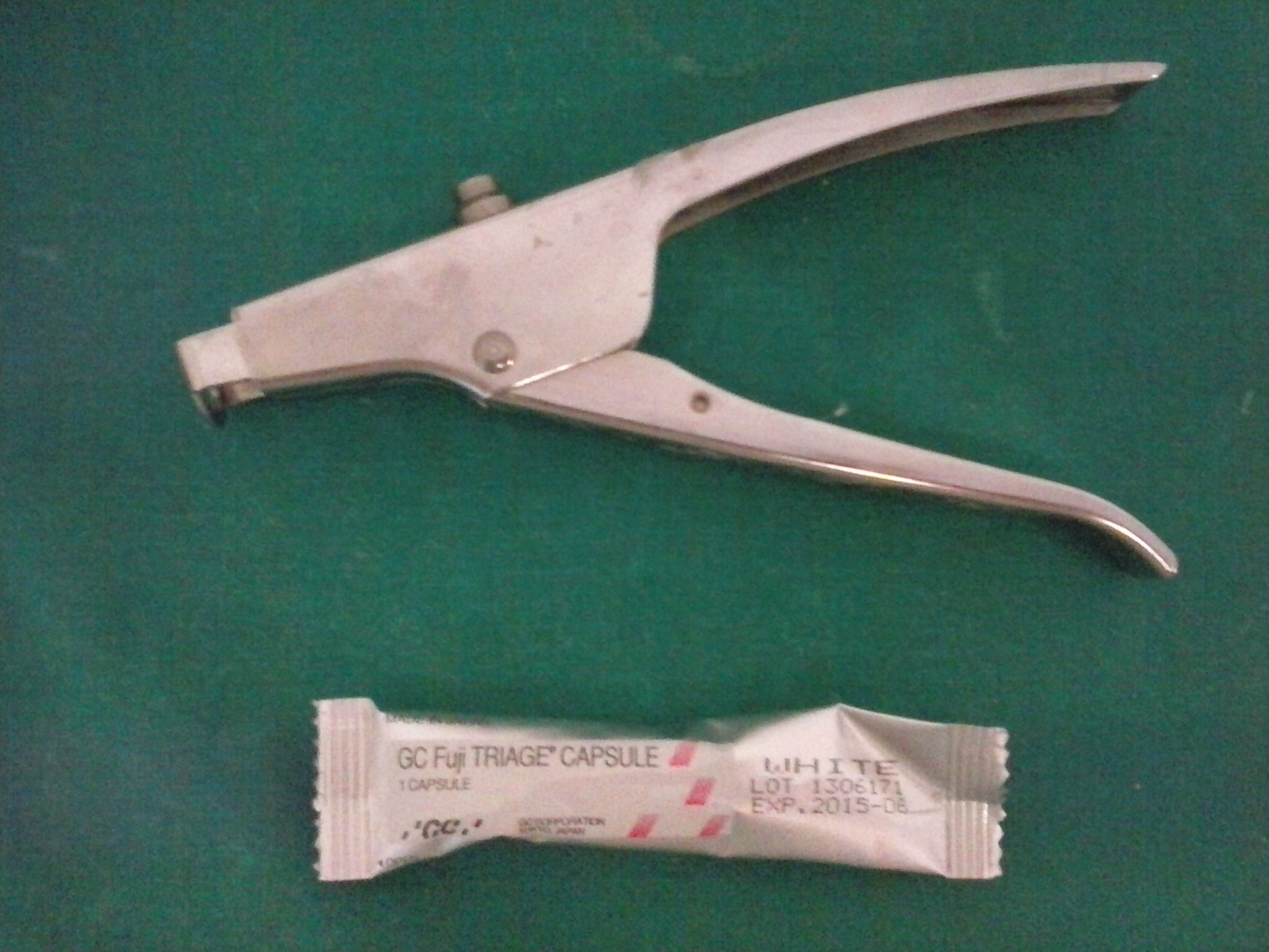 Stomatologija